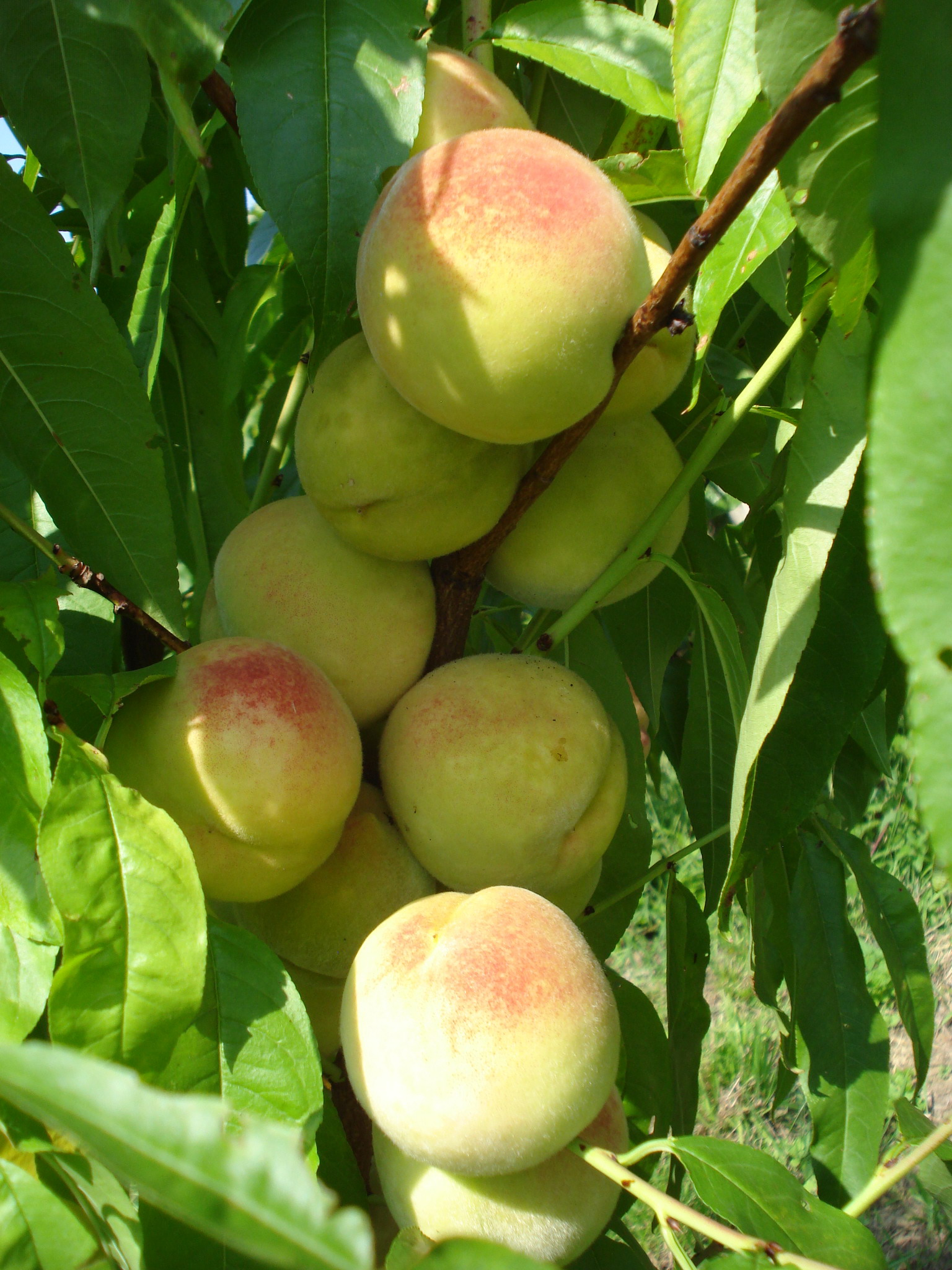 Vineyard peach, grown in Medjimurje County, northern CroatiaHrvatski: Vinogradska breskva, uzgojena u Međimurskoj županiji, sjeverna Hrvatska